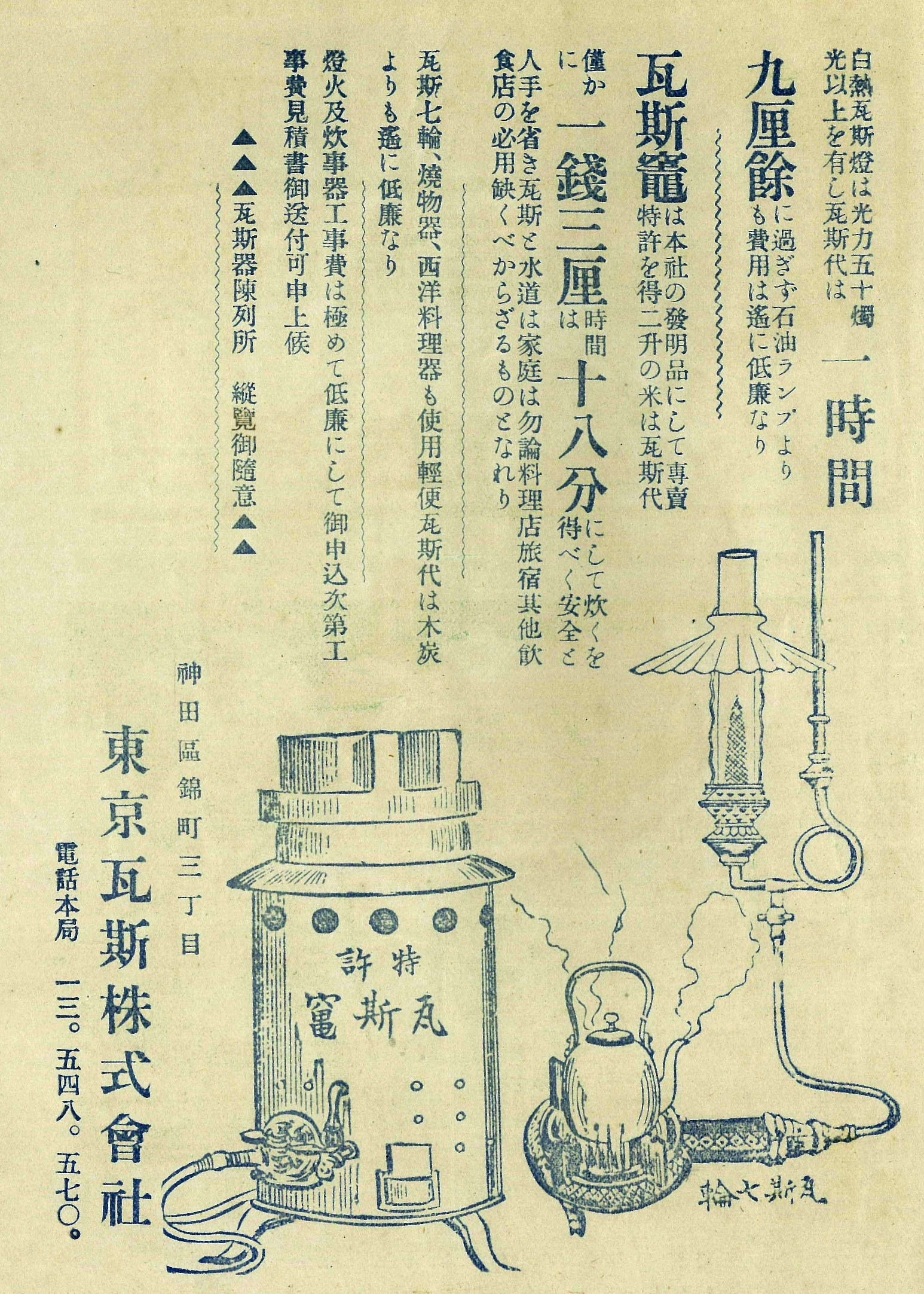 Advertisement for Tokyo Gas from Katei no Shirube No.4, 1 Oct 1904